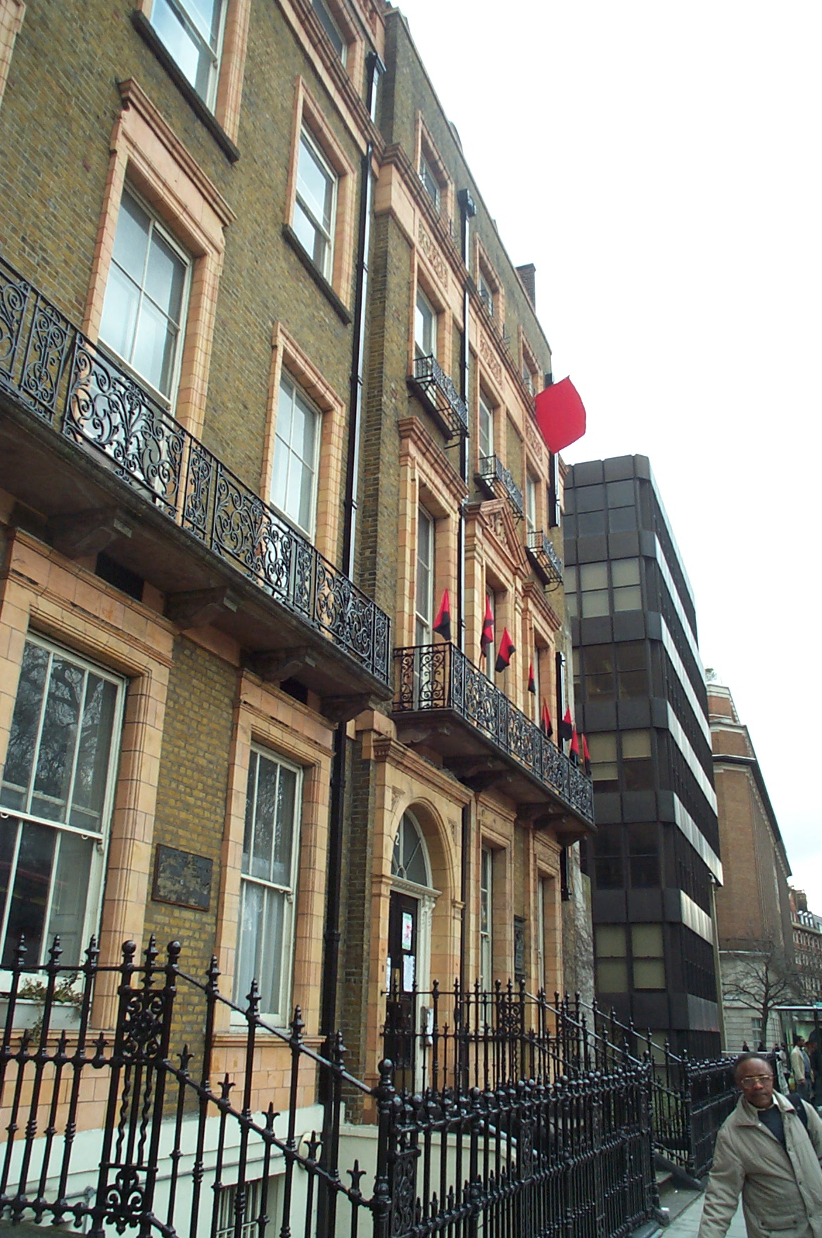 The "London Social Centre" [1], a squatting action by anarcho-syndicalists in Russell Square that ended 1 July 2006. Photograph taken 2006-03-29. Copyright © 2006 Kaihsu Tai. Also see Image:LondonSocialCentreRussellSquareSquat0 20060329KaihsuTai.jpg.